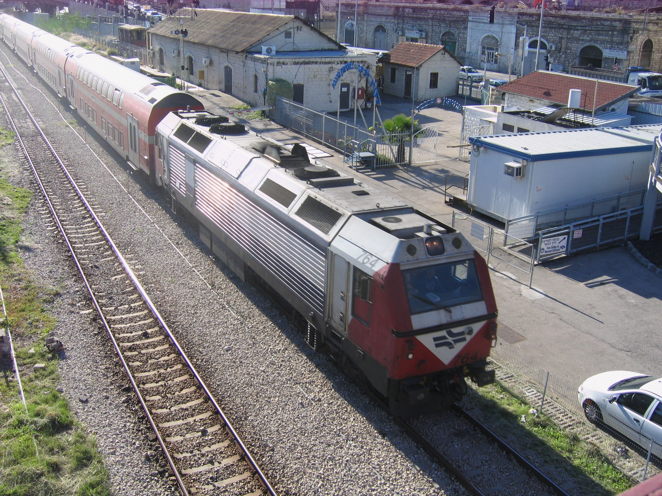 Rly. Station Haifa East(Mizrah)